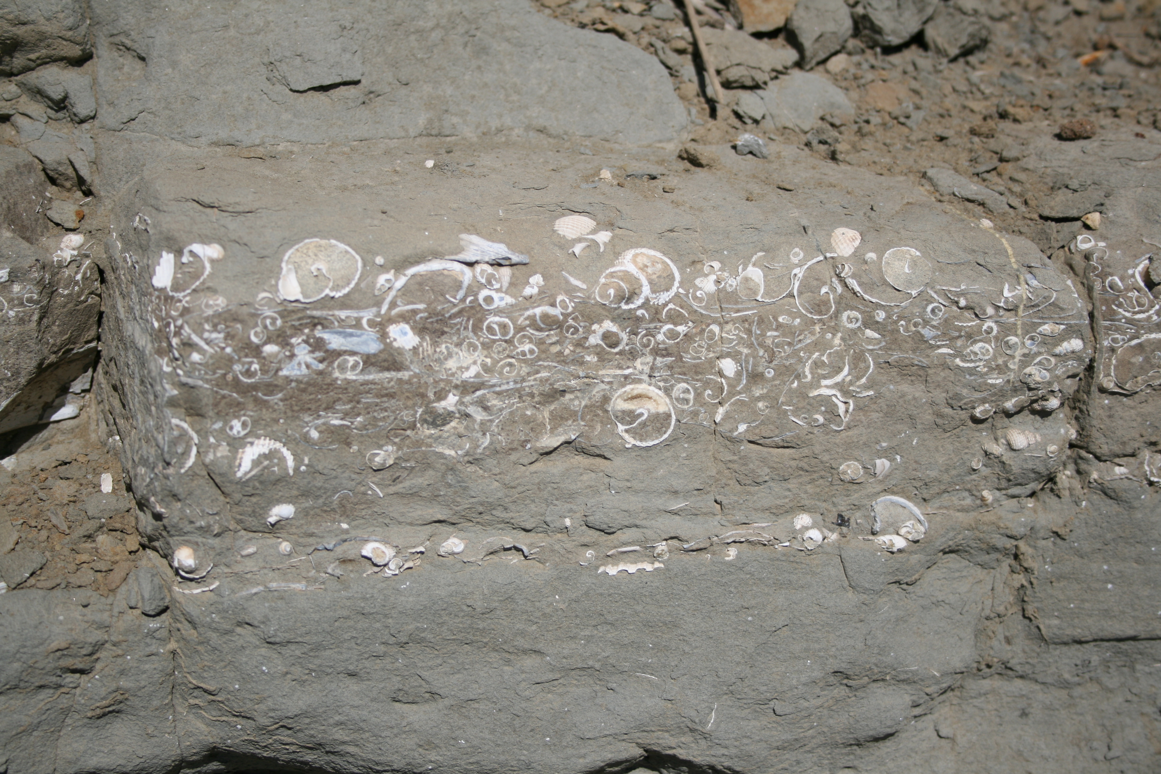 Beach wall with at Año Nuevo State Reserve with Fossils